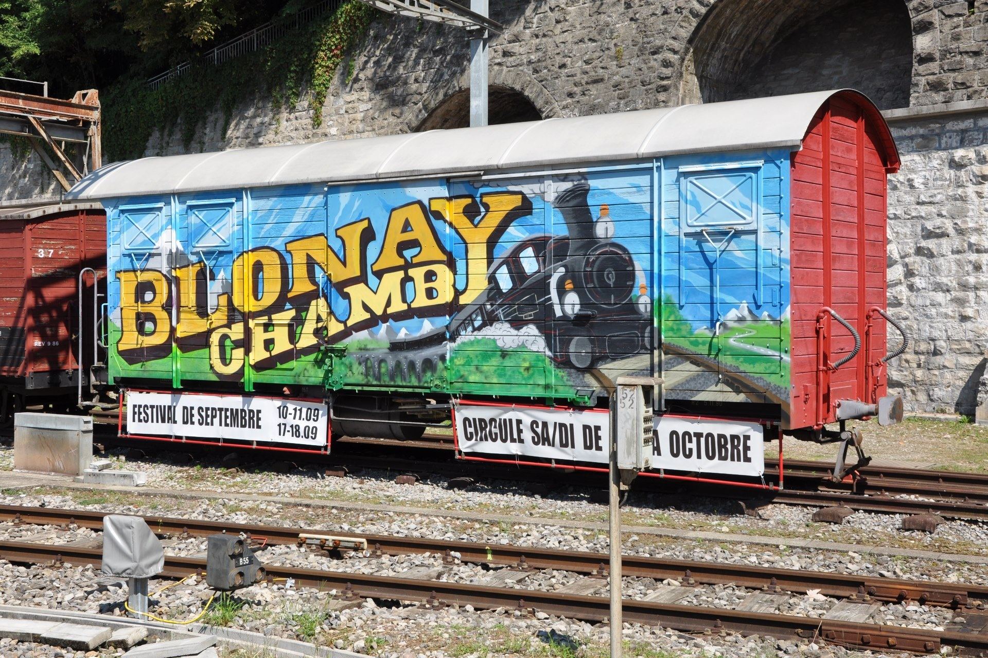 Four axles metre gauge railway covered goods wagon K 672, ex Gak 672, of the former Chemins de fer fribourgeois Gruyère–Fribourg–Morat (GFM), in the collection of the Blonay–Chamby museum railway (BC), at the Vevey railway station with publicity for the museum railway.